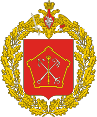 Emblem of Leningrad Military District